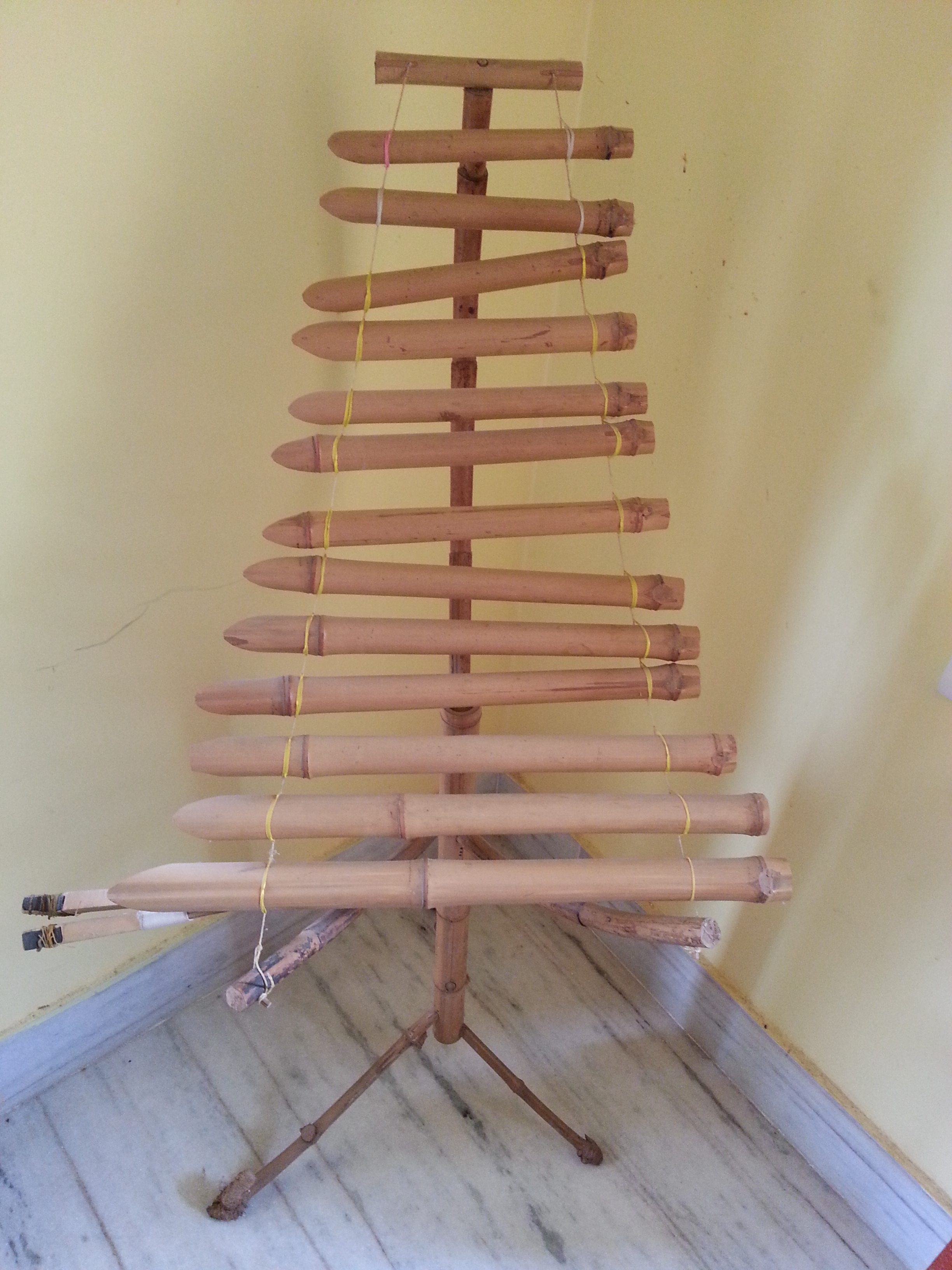 Traditional musical instrument from Asia